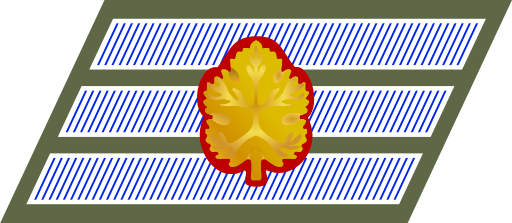 IDF obsolete ranks insignia of staff sergeant for MP and military orchestra